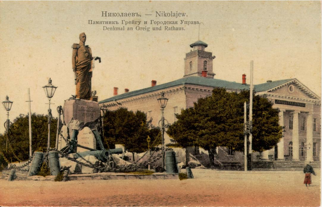 „Nikolajew. Denkmal an Greig und Rathaus.“